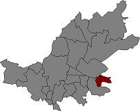 Location of Rodonyà in Alt Camp